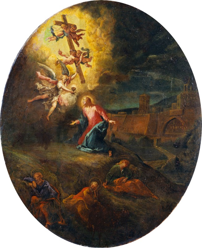 The painting was purchased as a work by Gaspare Diziani, an early 18th-century painter from the Veneto region, and the attribution is confirmed in the descriptions by Zuffi and Spiriti. Stylistic analysis does indeed reveal the characteristic elements of Diziani’s mature production, when he had abandoned the academic classicism of his first master Gregorio Lazzarini, not least through the influence of Sebastiano Ricci, and returned to the legacy of 16th-century Venetian painting, especially Tintoretto’s handling of light. Nocturnal settings thus feature in a substantial proportion of these works with a strong chromatic contrast that focuses attention on the central episode while bathing the background figures and landscape in a warm and golden light. These characteristics are present in the canvas examined here. The figure of Christ, to whom the angel presents the chalice and announces the imminent Passion, is flooded with light from the heavenly messenger and the rays from same source spread out all around to reveal the sleeping apostles in the foreground and the walls of Jerusalem in the background. Bodies and objects tend to lose their precise outlines shapes in this intense light and become shapes hazily picked out in colour. The closest terms of reference are some works dating from the mid-1740s, including the series of Metamorphoses at Palazzo Minucci in Vittorio Veneto and the Madonna of Mount Carmel in the parish church of Borbiago di Mira. Attention is drawn in particular to the similarities in scenic layout and definition of the cross in the Saint Helena and the True Cross in the School of San Silvestro, Venice. A drawing in the Metropolitan Museum, New York, can perhaps be identified as a preparatory study for the figures of Christ and the angel [1].